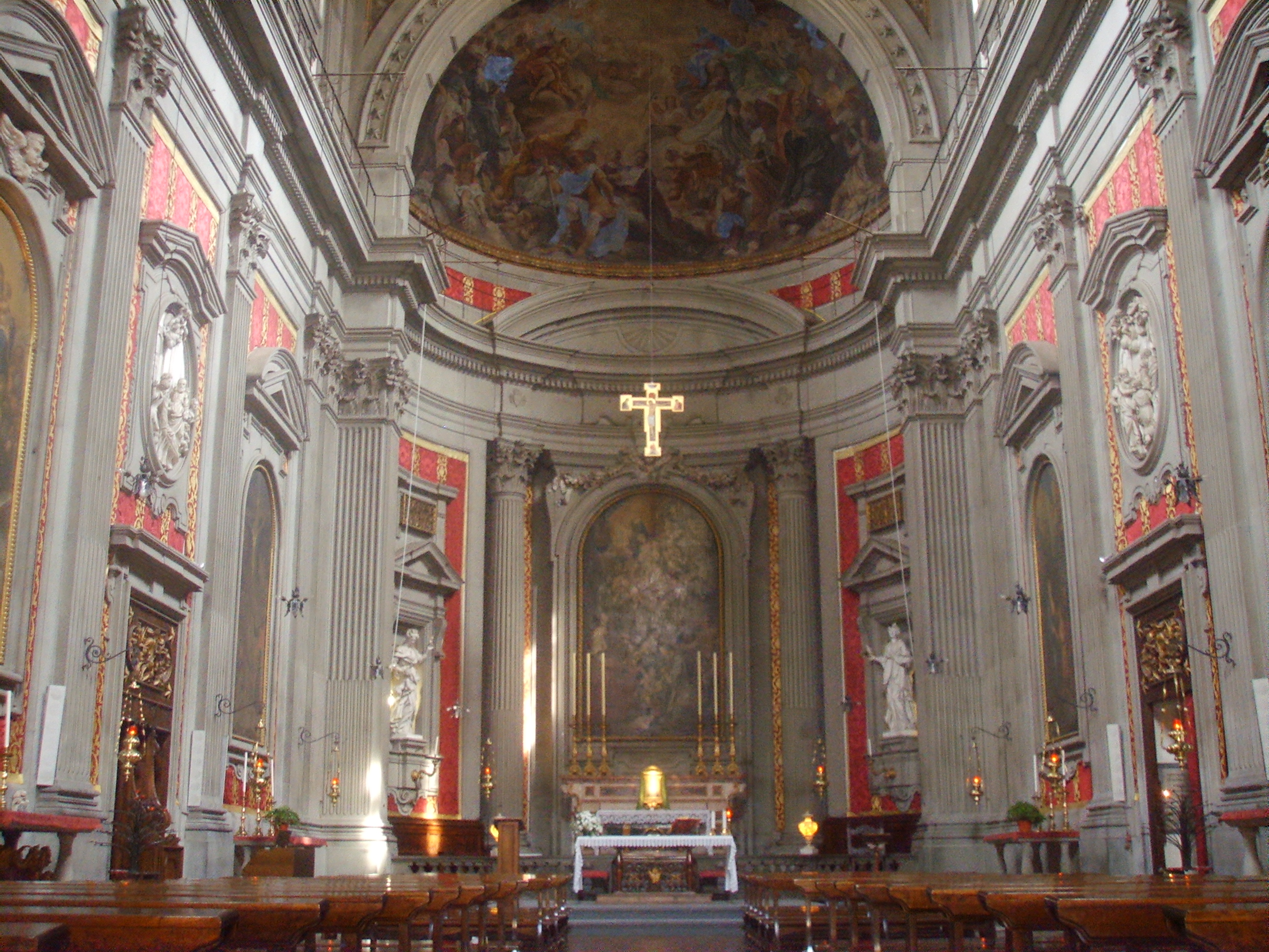 San Filippo Neri church, inside, Florence, Italy